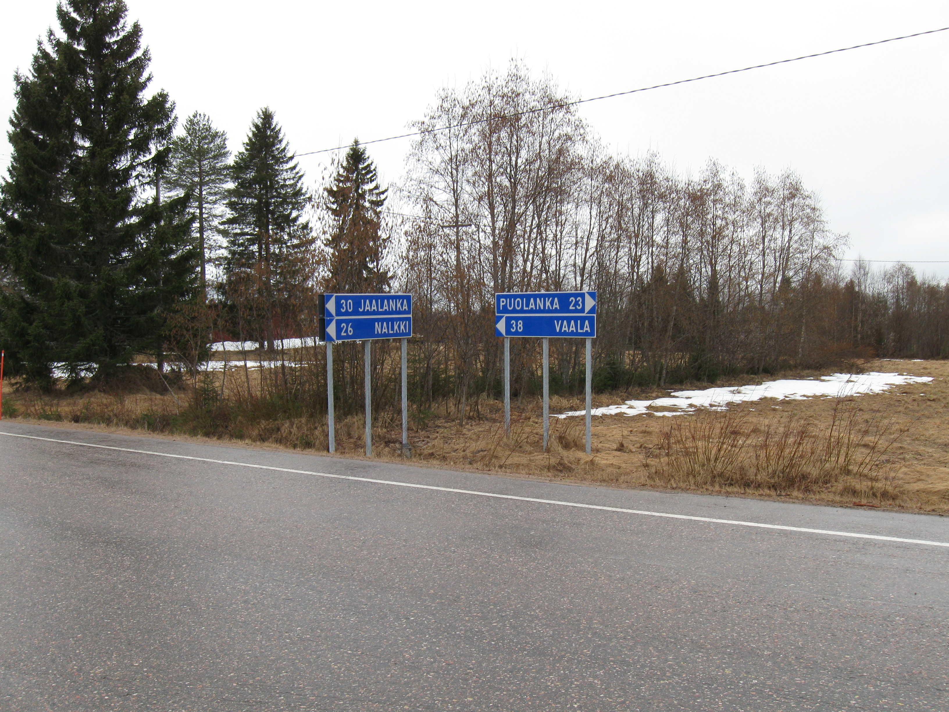 A set of street signs at crossroads of the regional road 800 and the connecting road 8832 in Puokionvaara, Puolanka, Finland.